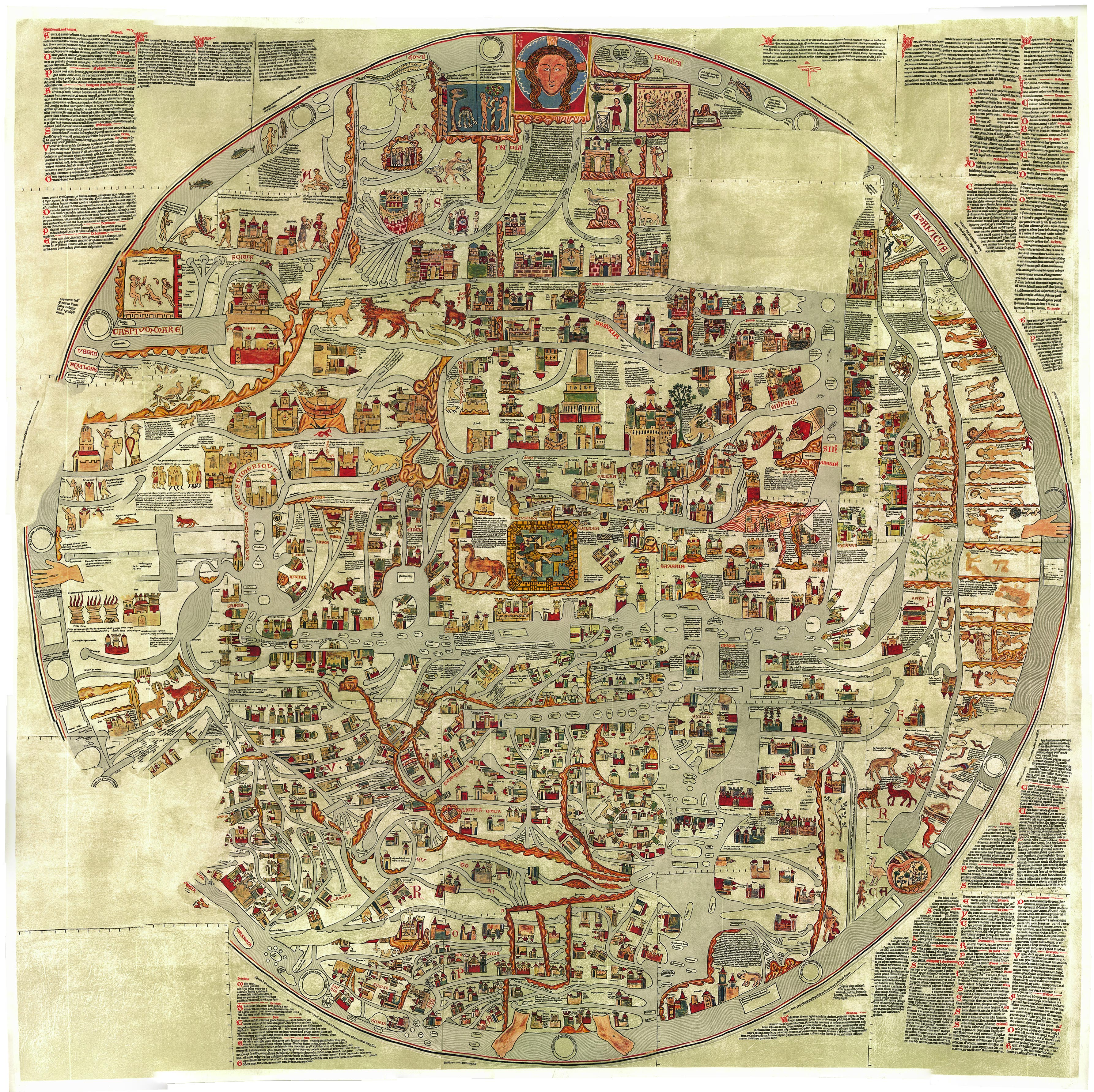 Ebstorfer World Map, T-O-Design, was attributed to Gervase of Tilbury at around 1234 for some time, newer comparisions do date the original image into the year 1300 and no longer to that person. the original is lost due WW II. bombings but reproductions from facsimile copys and a digital reconstruction do exist. on the prossing - own stiching Source of 81 images: stiching errors on the borders